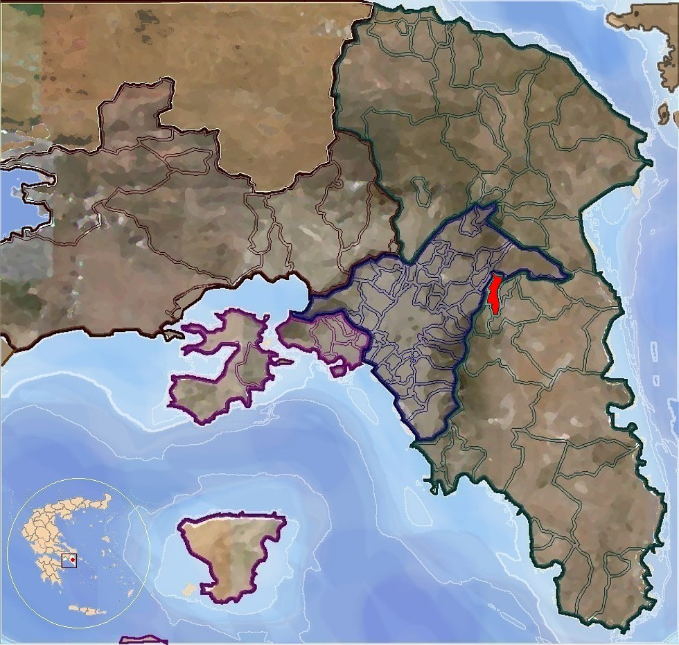 map